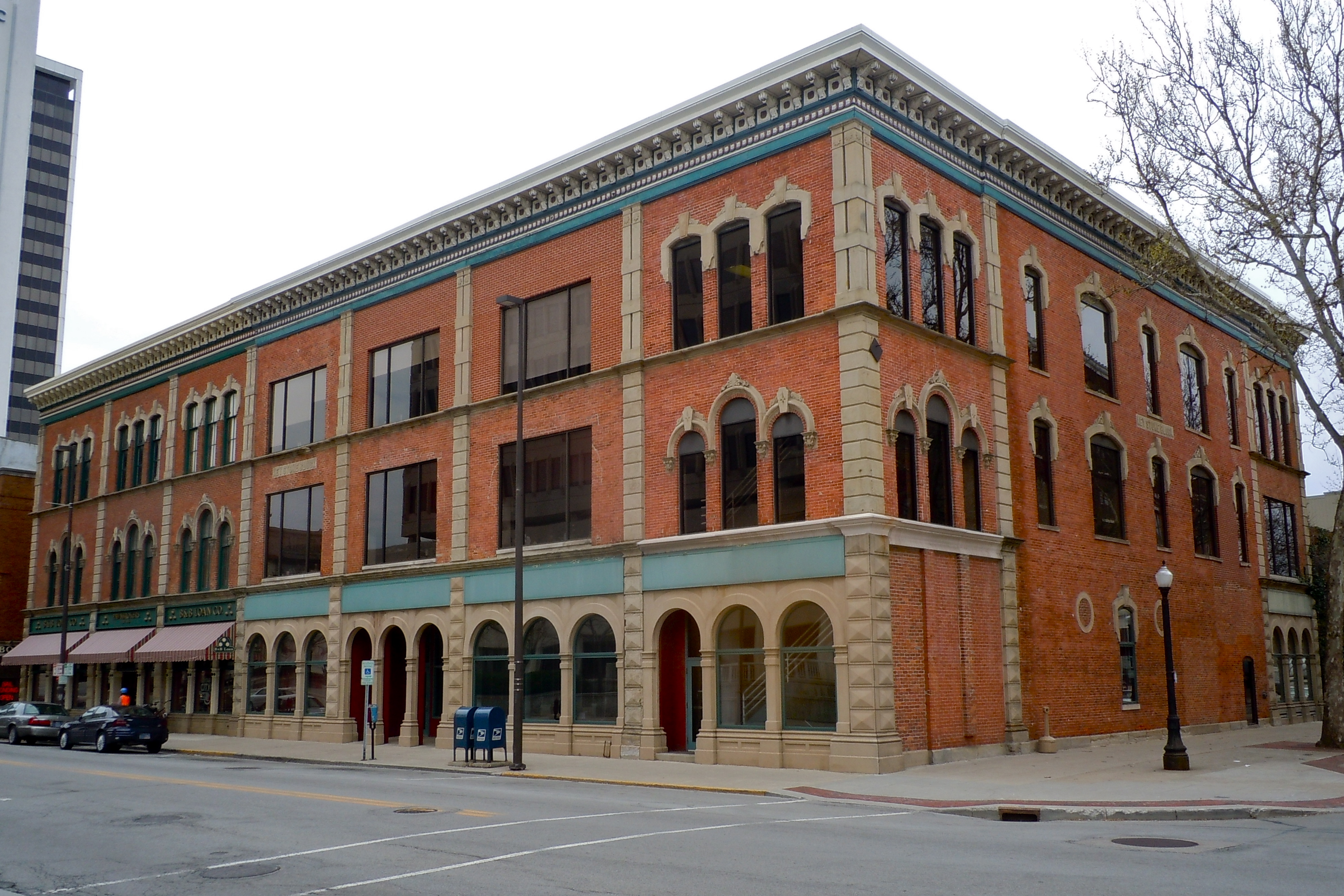 Building in the Landing Historic District on the NRHP since September 16, 1993. The historic district is roughly bounded by Calhoun, Harrison, Dock, and Pearl Sts., and the alley between Columbia and Main Sts., in Fort Wayne, Allen County, Indiana. This building is on Columbia Street which is something of a bar/entertainment district.